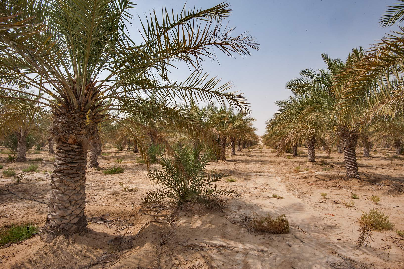 Date palm plantation in Al Mashabiya. Near Abu Samra, Al Rayyan, southern Qatar.